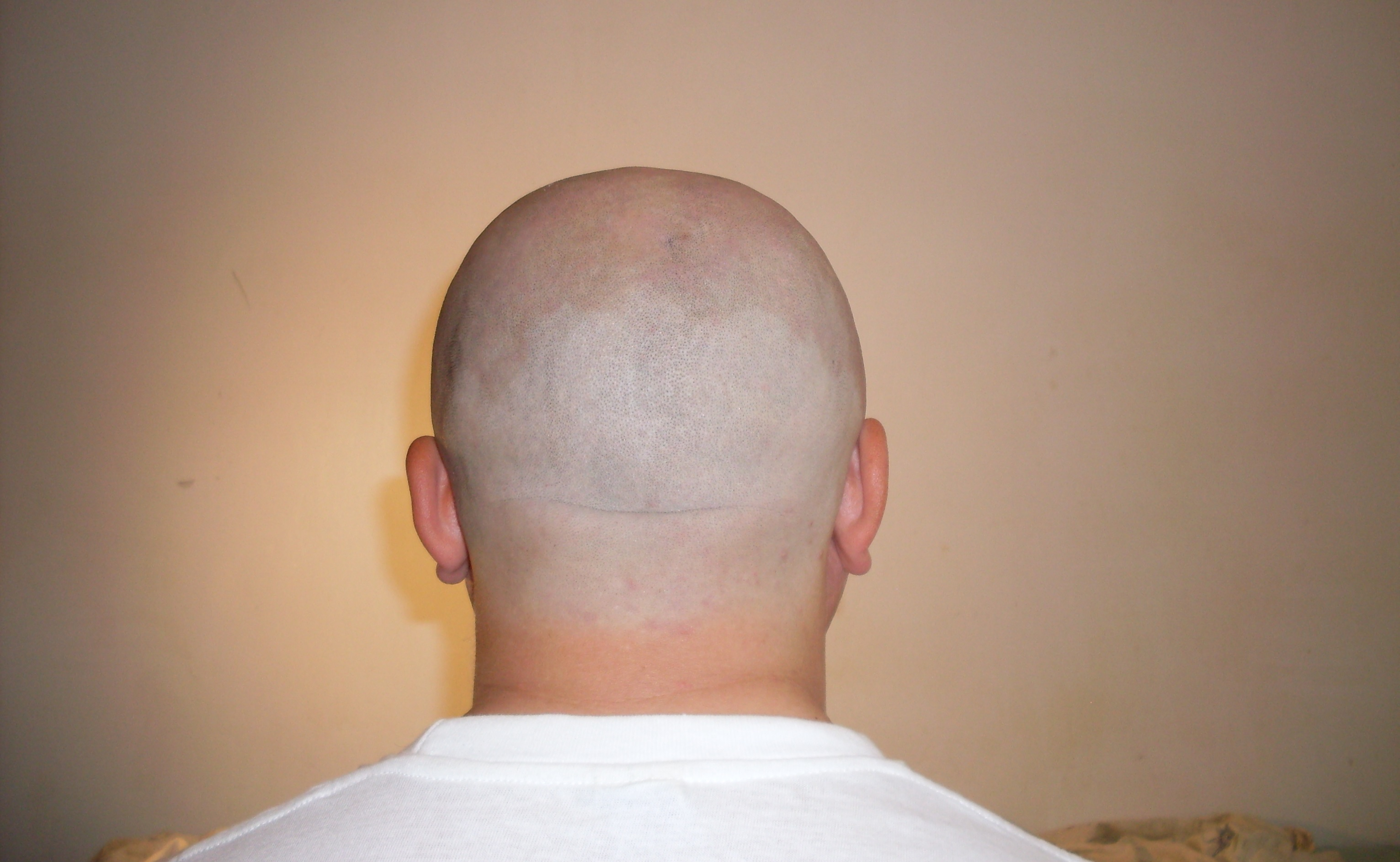 A Bald Man's Nape